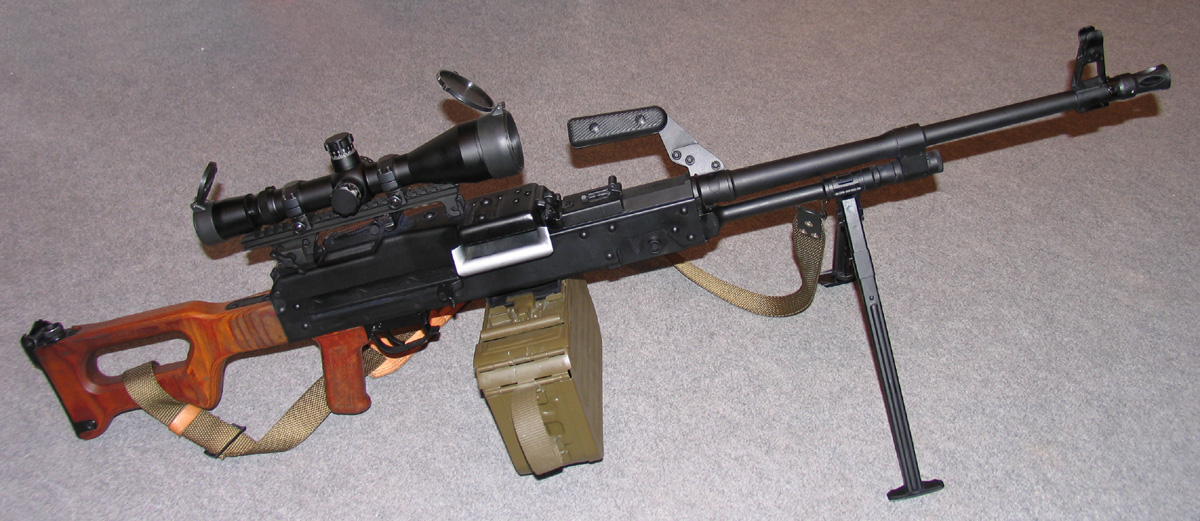 UKM-2000P GPMG, cal. 7.62 × 51 mm NATO, Firts uploaded to the pl wiki under name _UKM-2000P_REMOV.jpg by Author.